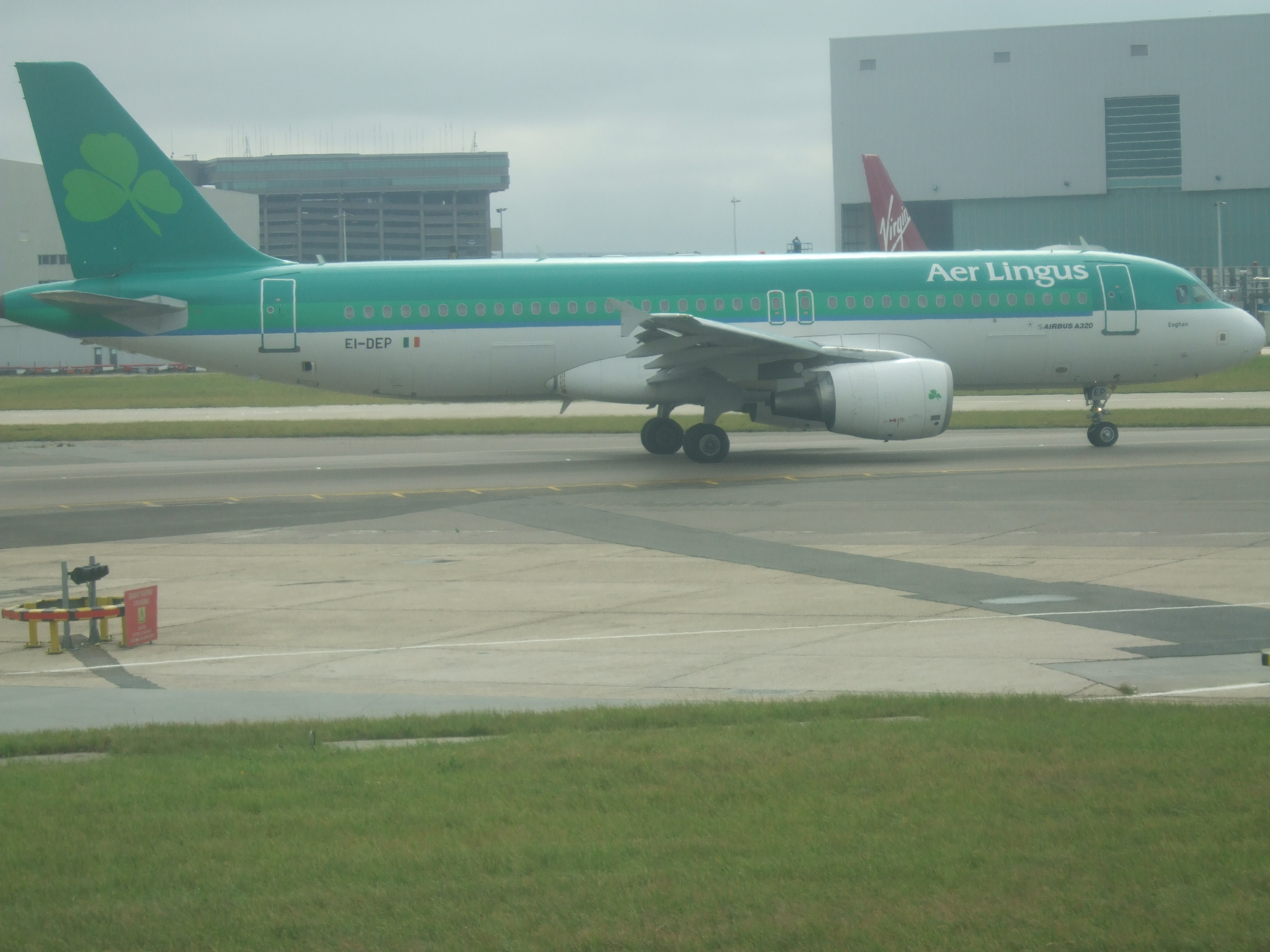 Aer Lingus Airbus A320-214 (EI-DEP) at London Heathrow Airport (LHR/EGLL)